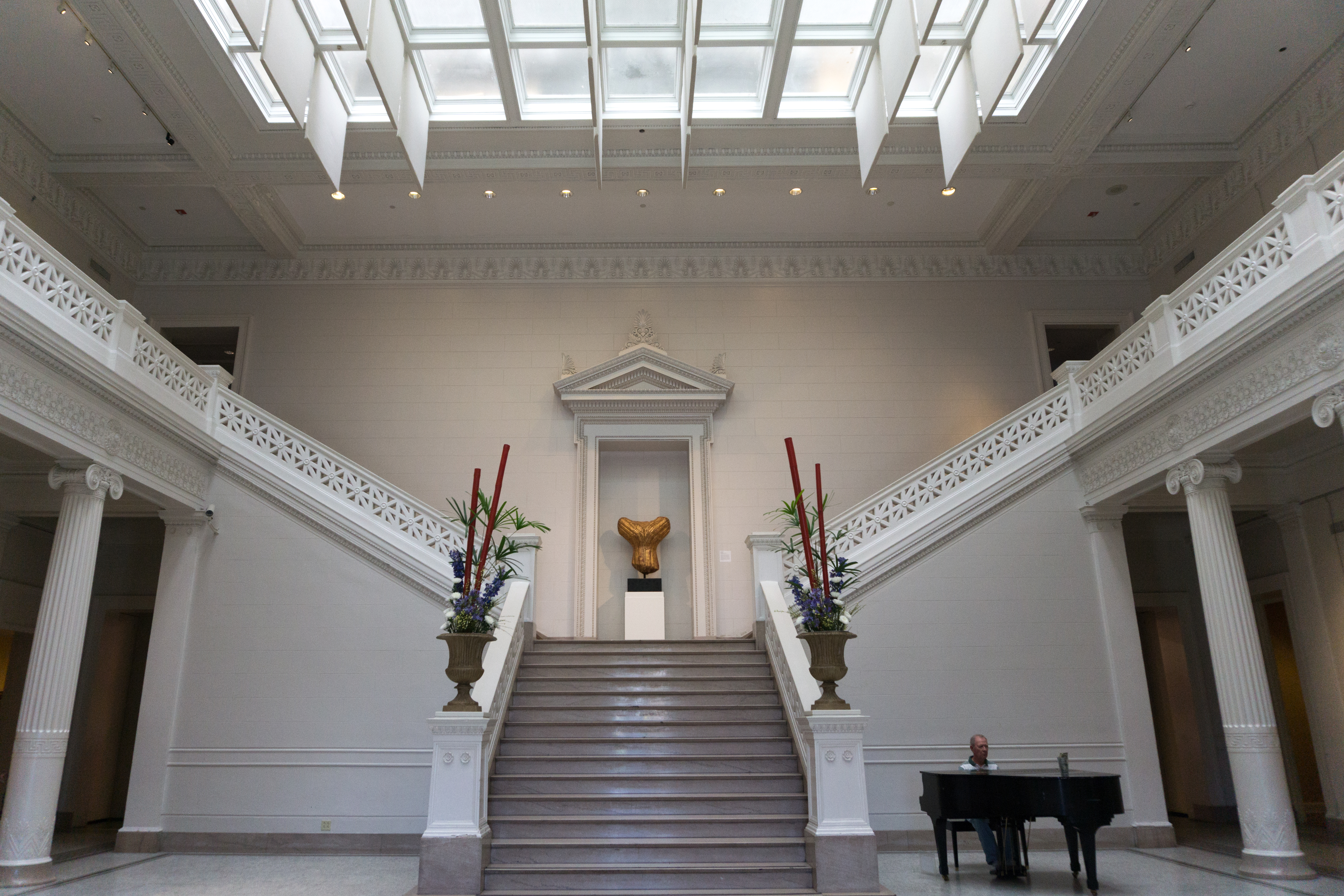 Interior of the New Orleans Museum of Art, with pianist.